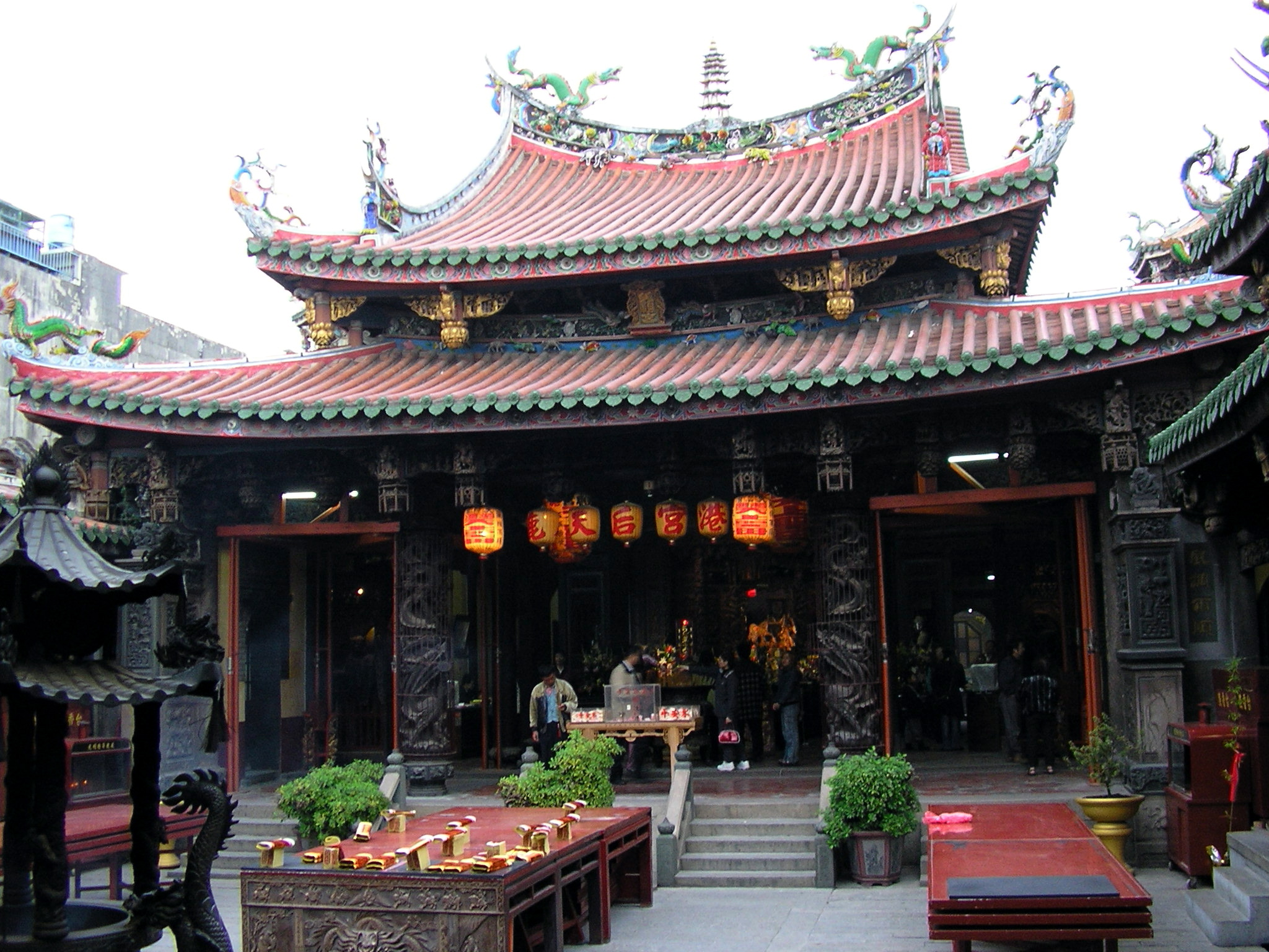 Tienhou Temple in Lukang, Changhua County, Taiwan. Taken January 5, 2005.